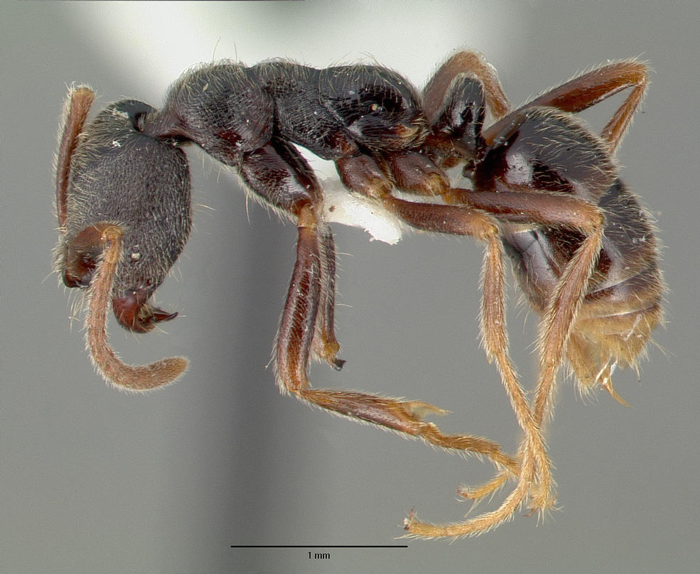 Profile view of ant Simopelta laticeps specimen castype09451.